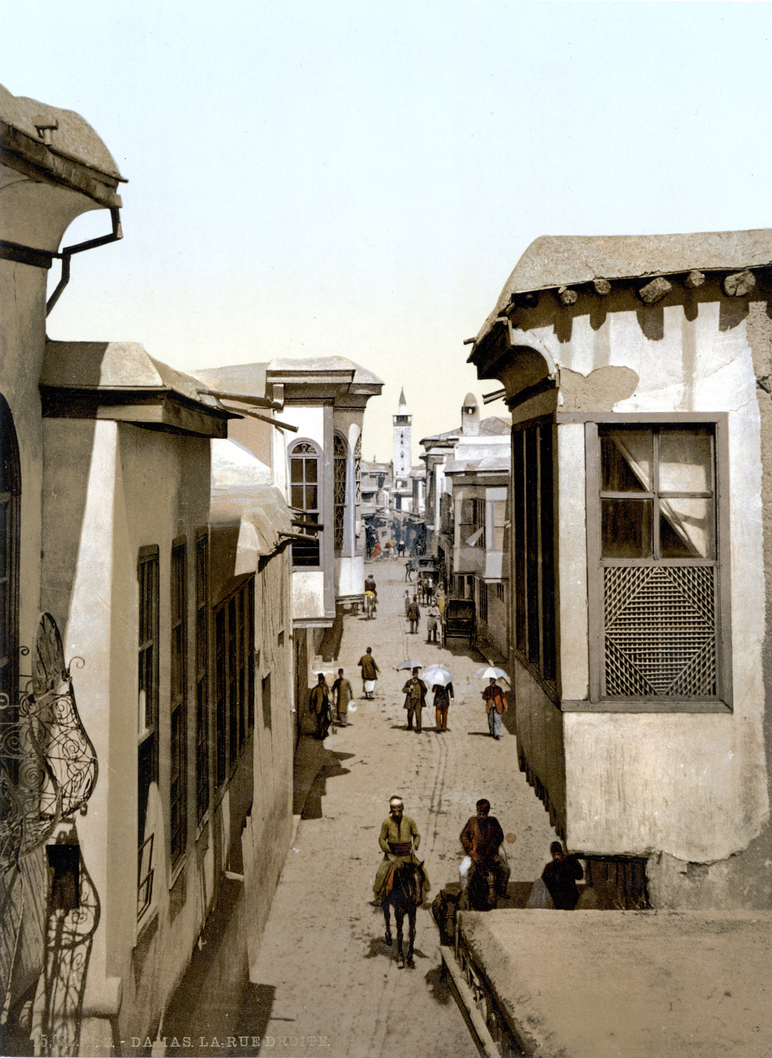 [The street called straight, Damascus, Holy Land, (i.e. Syria)] Title from the Detroit Publishing Co., catalogue J—foreign section. Detroit, Mich. : Detroit Photographic Company, 1905. Print no. "15082". Forms part of: Views of the Holy Land in the Photochrom print collection.